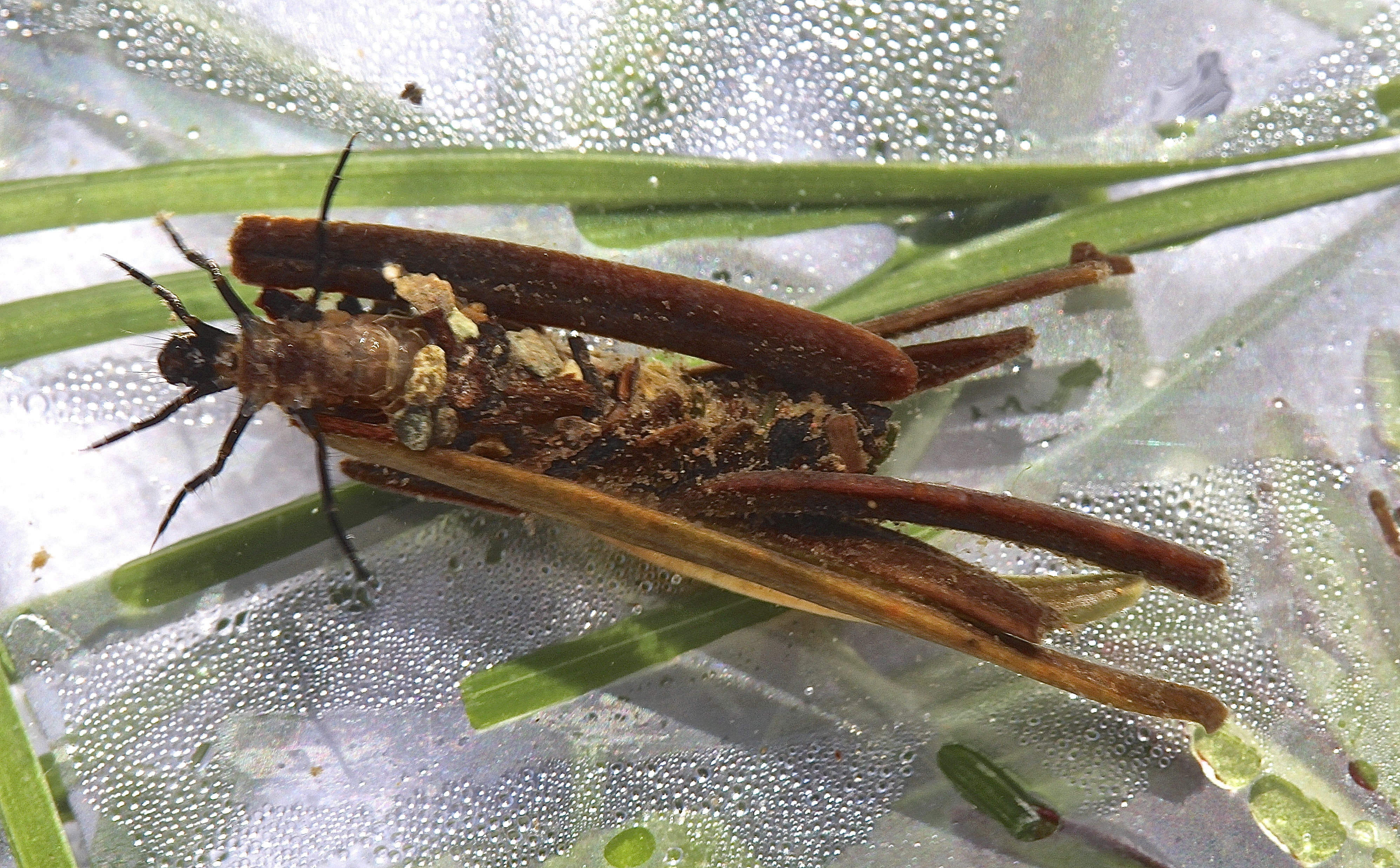 Immature larva from Washougal River in Camas, WA.